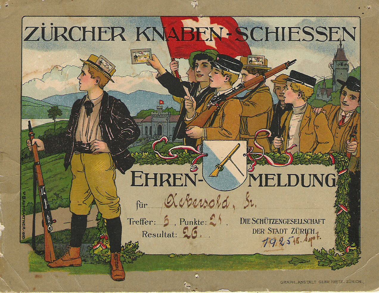 Old custom, Zurich, Switzerland